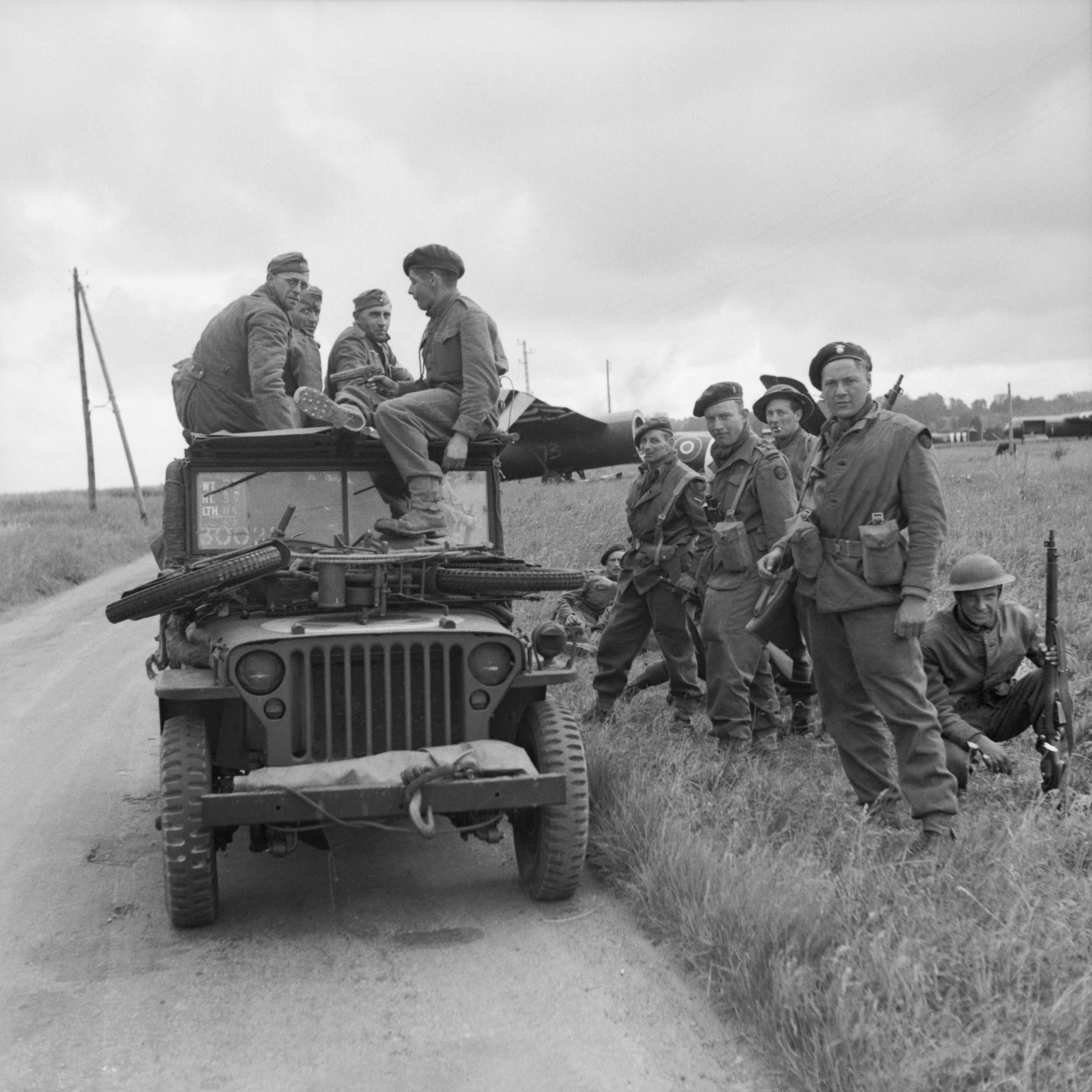 IWM caption : THE BRITISH ARMY IN THE NORMANDY CAMPAIGN 1944. Commandos of 1st Special Service Brigade with captured Germans on the roof of their jeep at the glider landing grounds near Ranville, 7 June 1944. Note the Horsa gliders in the background. The standing man (in the foreground on the right) could be Lieutenant colonel Derek Mills-Roberts.